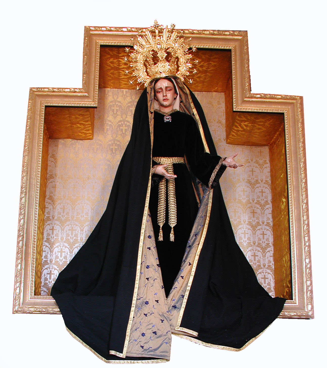 The venerated image of Our Lady of Warfhuizen